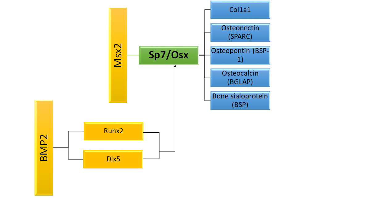 Chart detailing the upstream and downstream regulatory factor for Sp7/Osterix